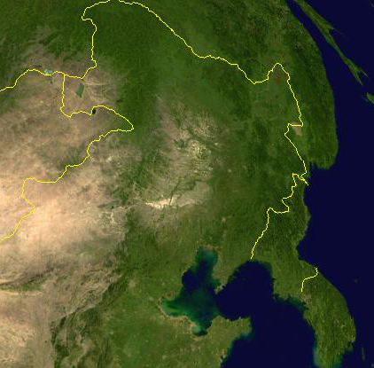 China Northeast